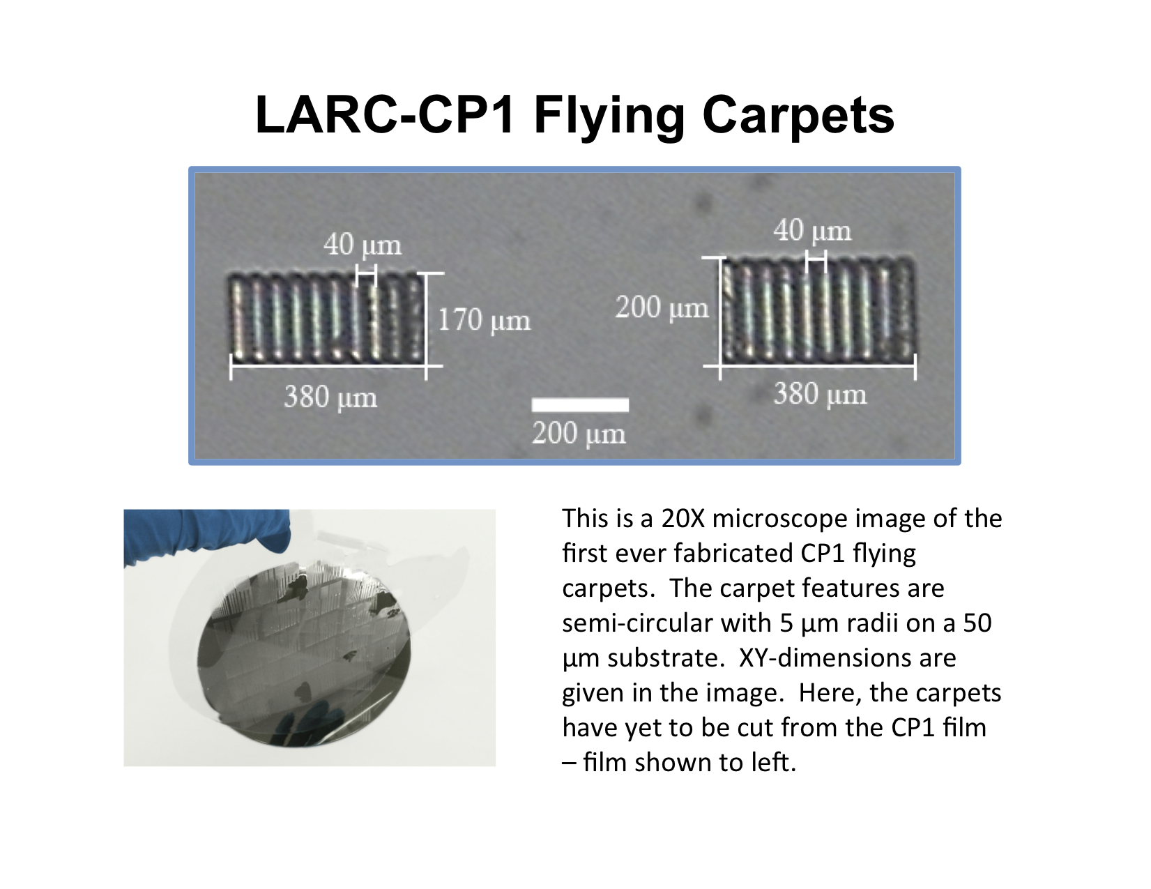 This is a 20X microscope image of the first ever fabricated CP1 flying carpets. The carpet features are semi-circular with 5 μm radii on a 50 μm substrate. XY-dimensions are given in the image. Here, the carpets have yet to be cut from the CP1 film – film shown to left.